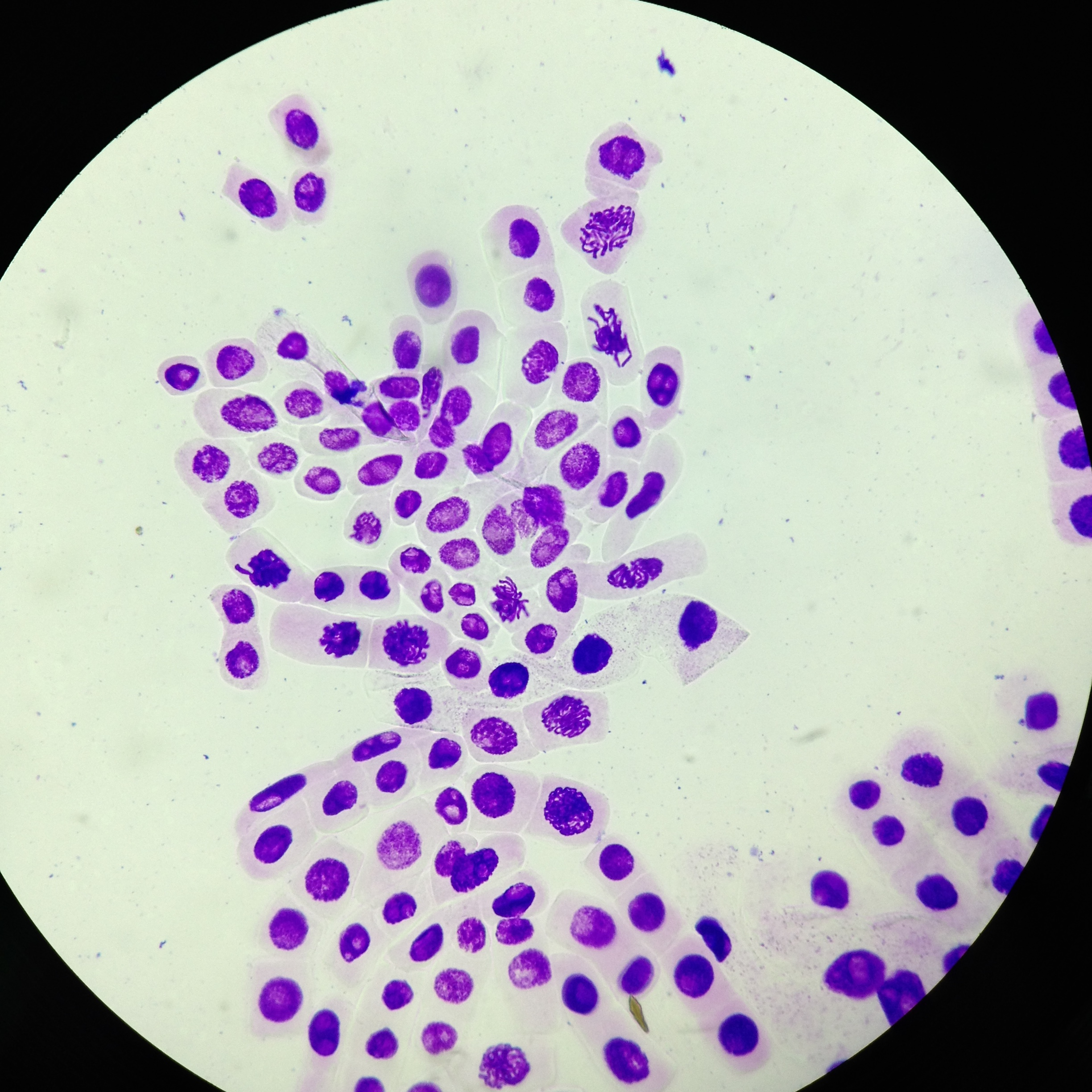 processed apical cells of garlic